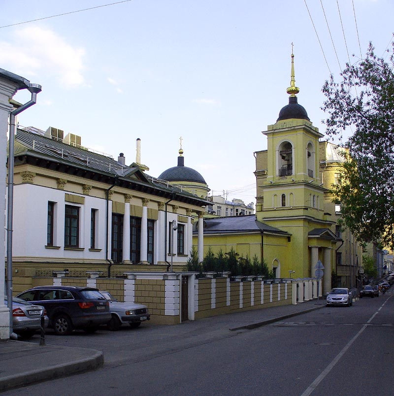 Bolshoy Afanasyevsky Lane, Moscow, St. Afanasy and Cyril church, 1836